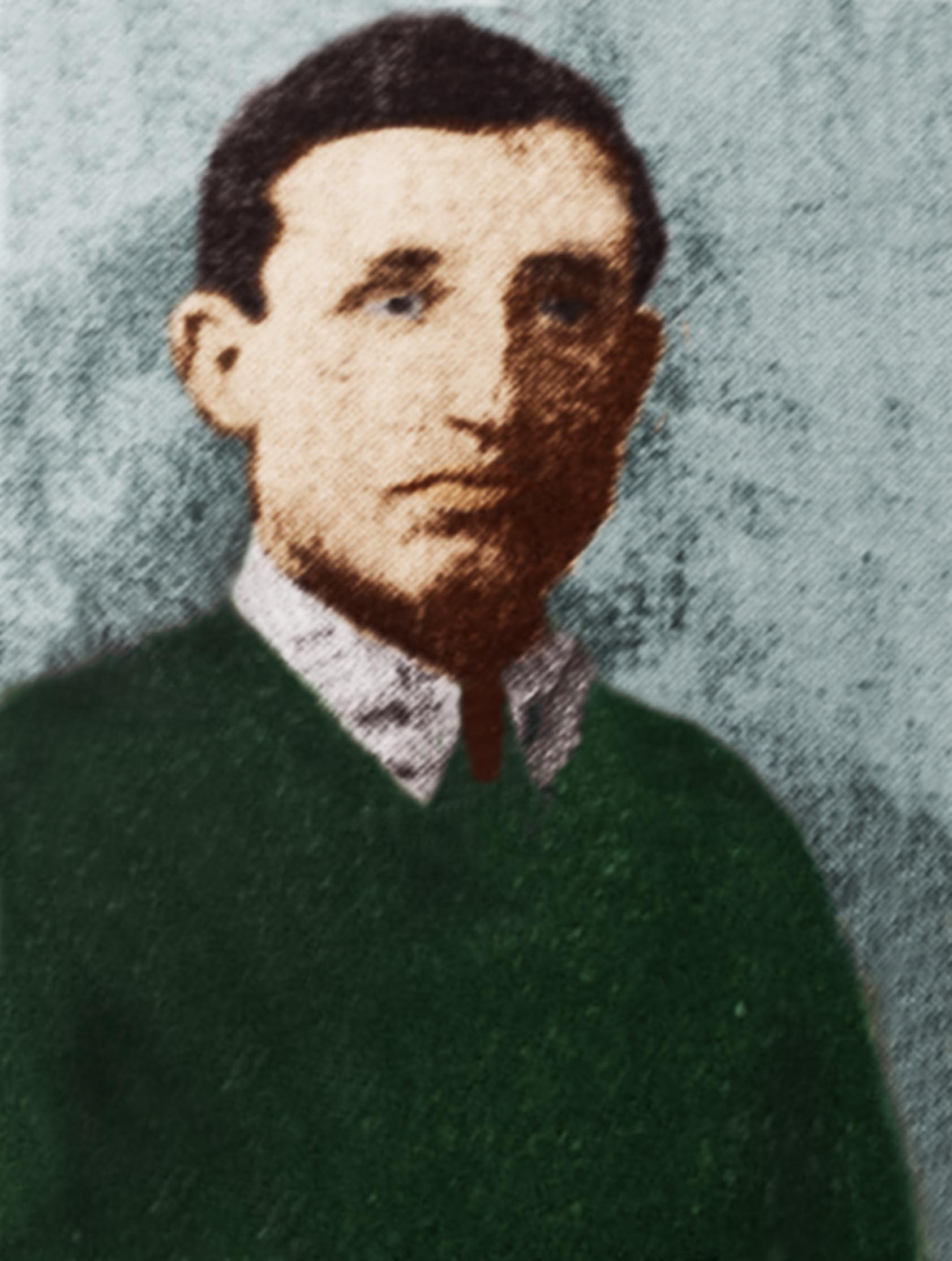 Michalis Papazoglou (Μιχάλης Παπάζογλου) (color edition from user: Sporting)